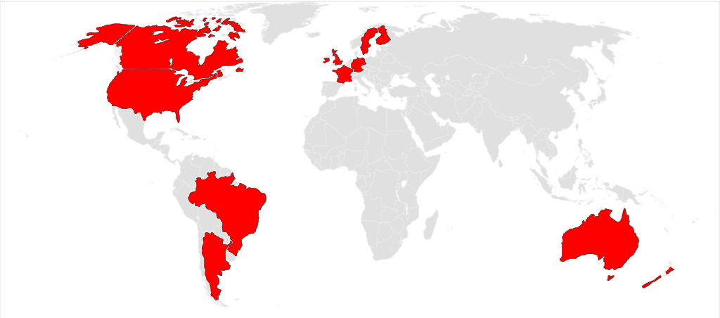 World map showing countries sending teams to compete in the 2011 Roller Derby World Cup